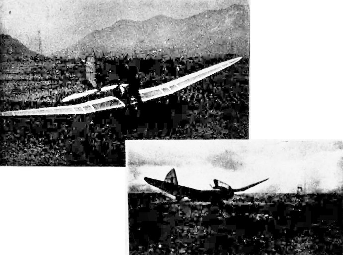 Tondokoro type 1.